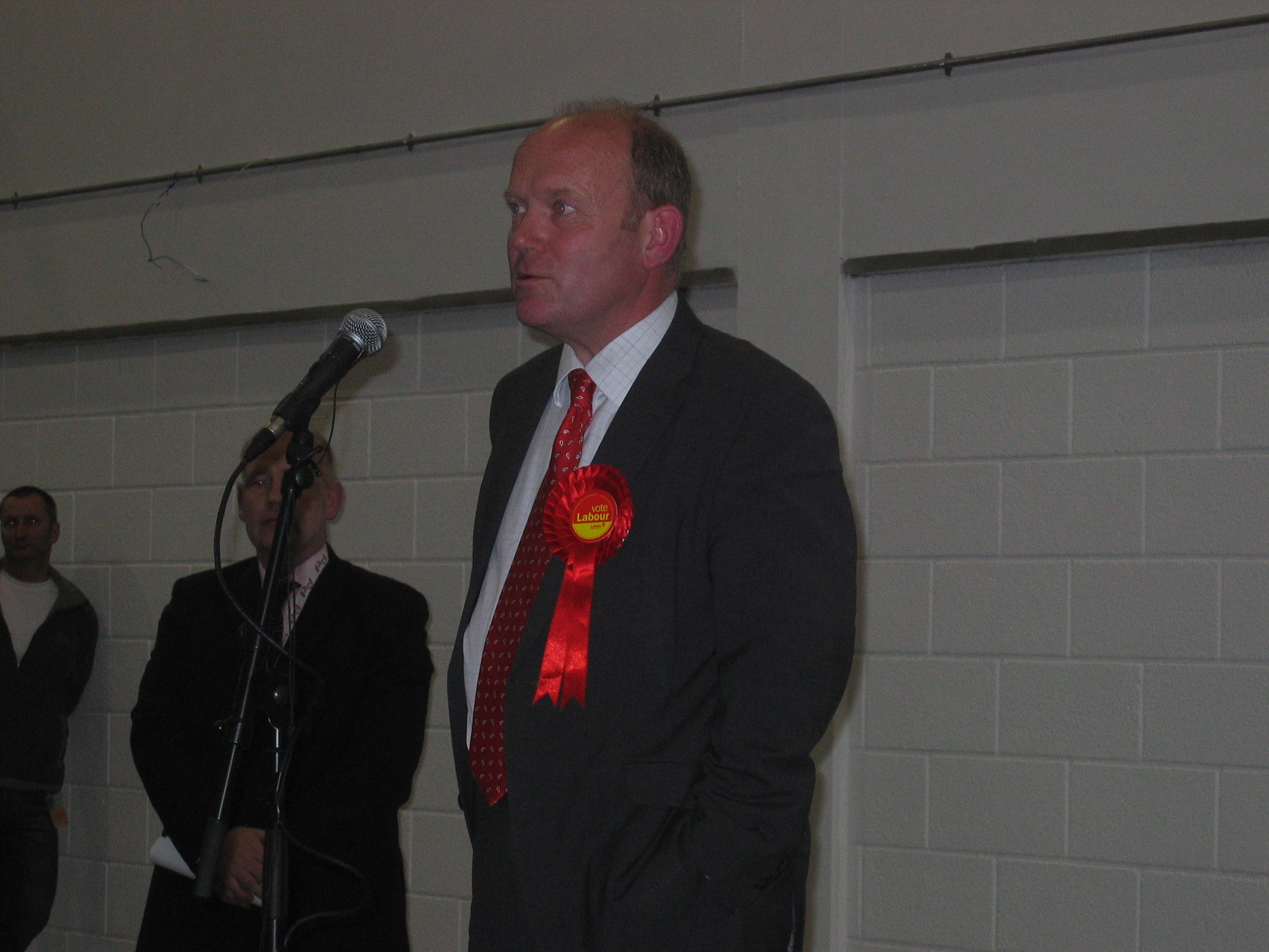 London Elections 2008, Excel count centre. John_Biggs